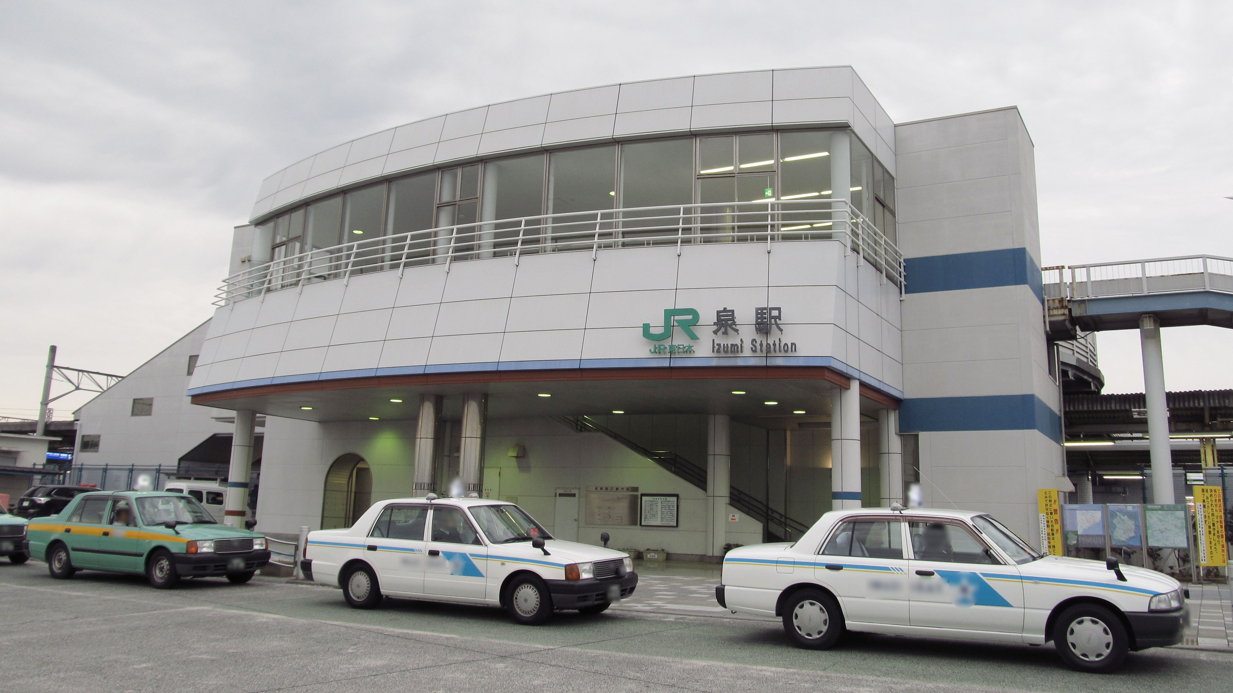 The south entrance of Izumi Station on the Jōban Line in Iwaki, Fukushima Prefecture, Japan